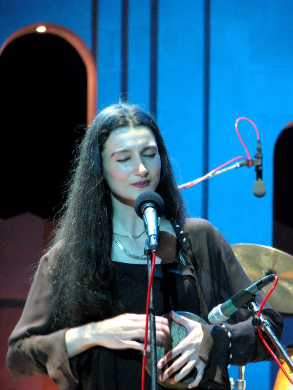 Adil Aliyev Baku Jazz Festival 2007